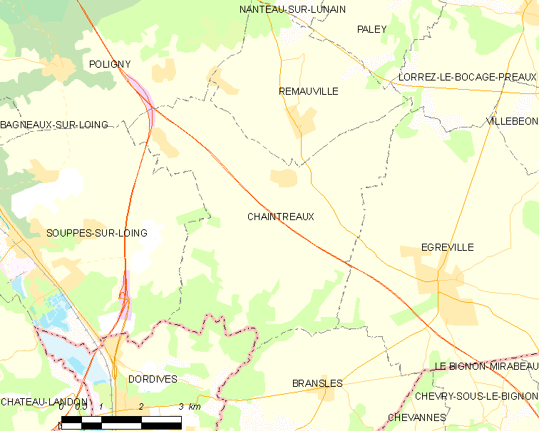 Map of French municipality Chaintreaux